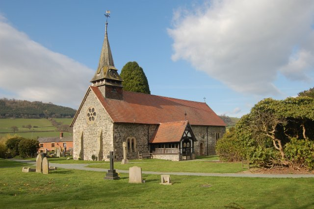 Saint Garmons Church Llanfechain